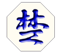 One of the janggi pieces.